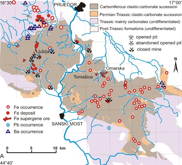 Carboniferous clastic-carbonate succession Permian-Triassic clastic-carbonate succession Triassic mainly carbonates (undifferentiated) Post-Triassic formations (undifferentiated)